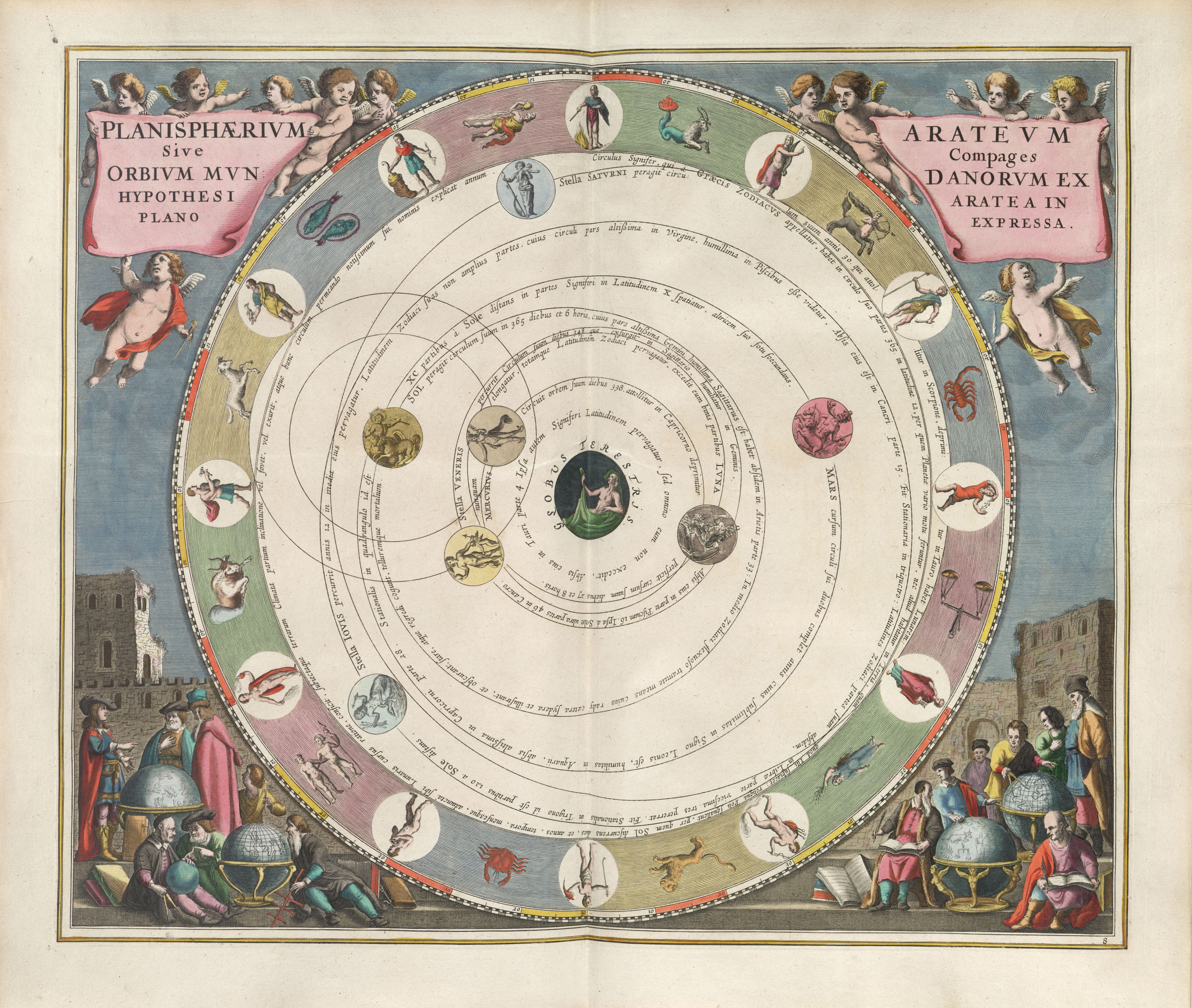 Andreas Cellarius: Harmonia macrocosmica seu atlas universalis et novus, totius universi creati cosmographiam generalem, et novam exhibens. Plate 8. PLANISPHÆRIVM ARATEVM Sive Compages ORBIVM MVNDANORVM EX HYPOTHESI ARATEA IN PLANO EXPRESSA - The planisphere of Aratus, or the composition of the heavenly orbits following the hypothesis of Aratus expressed in a planar view.